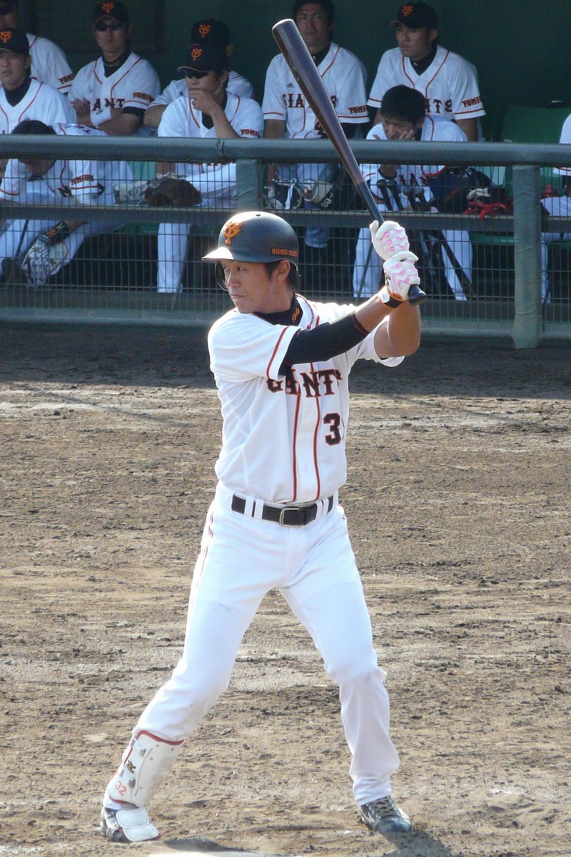 Hidetoshi-Tsuburaya